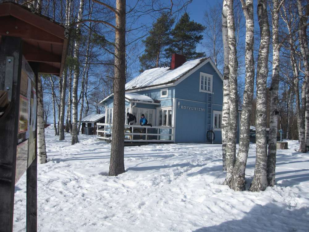 Koivuniemi village house in Joensuu